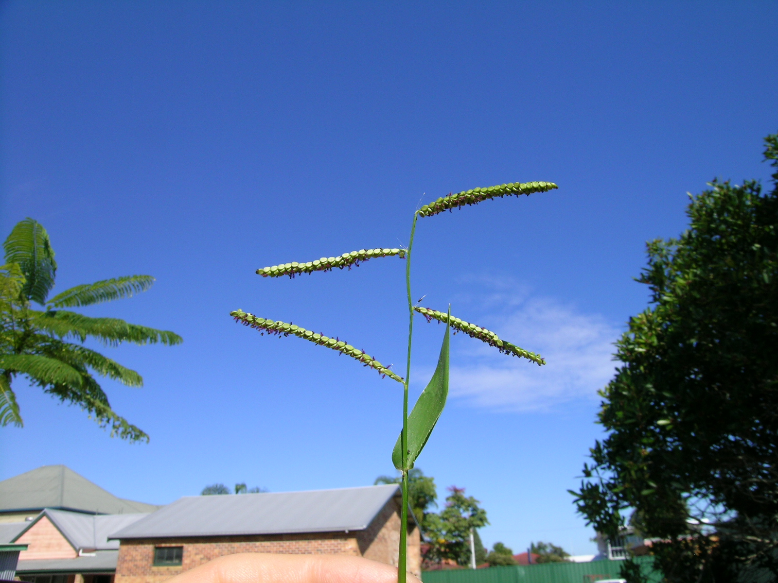 Flowerheads are a primary axis of racemes with 3-10 branches and spikelets arranged in 4 (sometimes 2) rows.